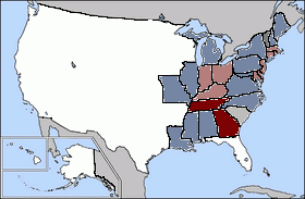 USa elections 1832 results